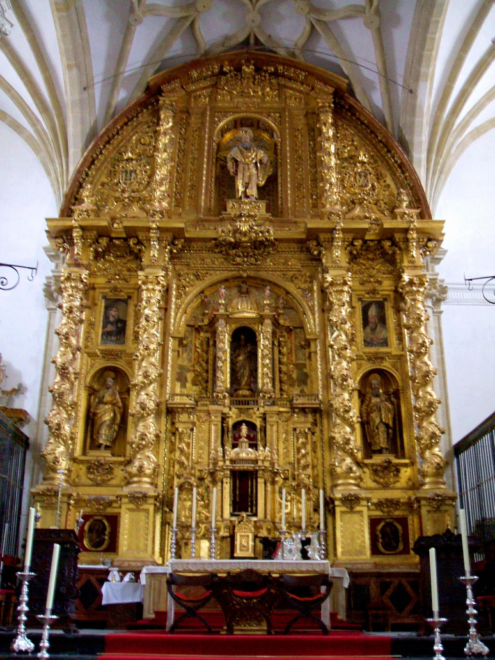 Retablo mayor de la Catedral de Baeza (Jaén, Andalucía, España)